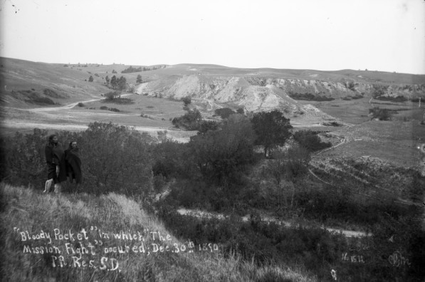 The site of the Drexel Mission Fight on the Pine Ridge Indian Reservation Lakota warriors and the United States Army